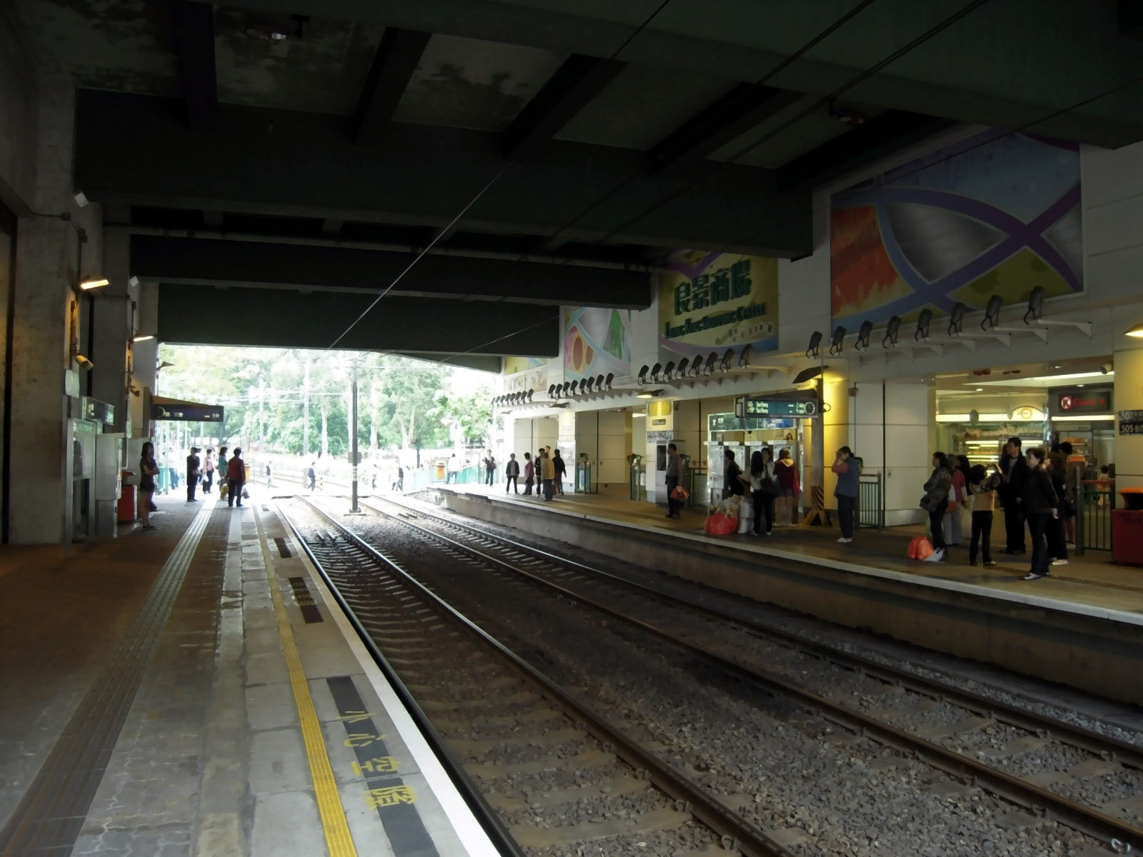 MTR Light Rail Leung King Stop, Hong Kong